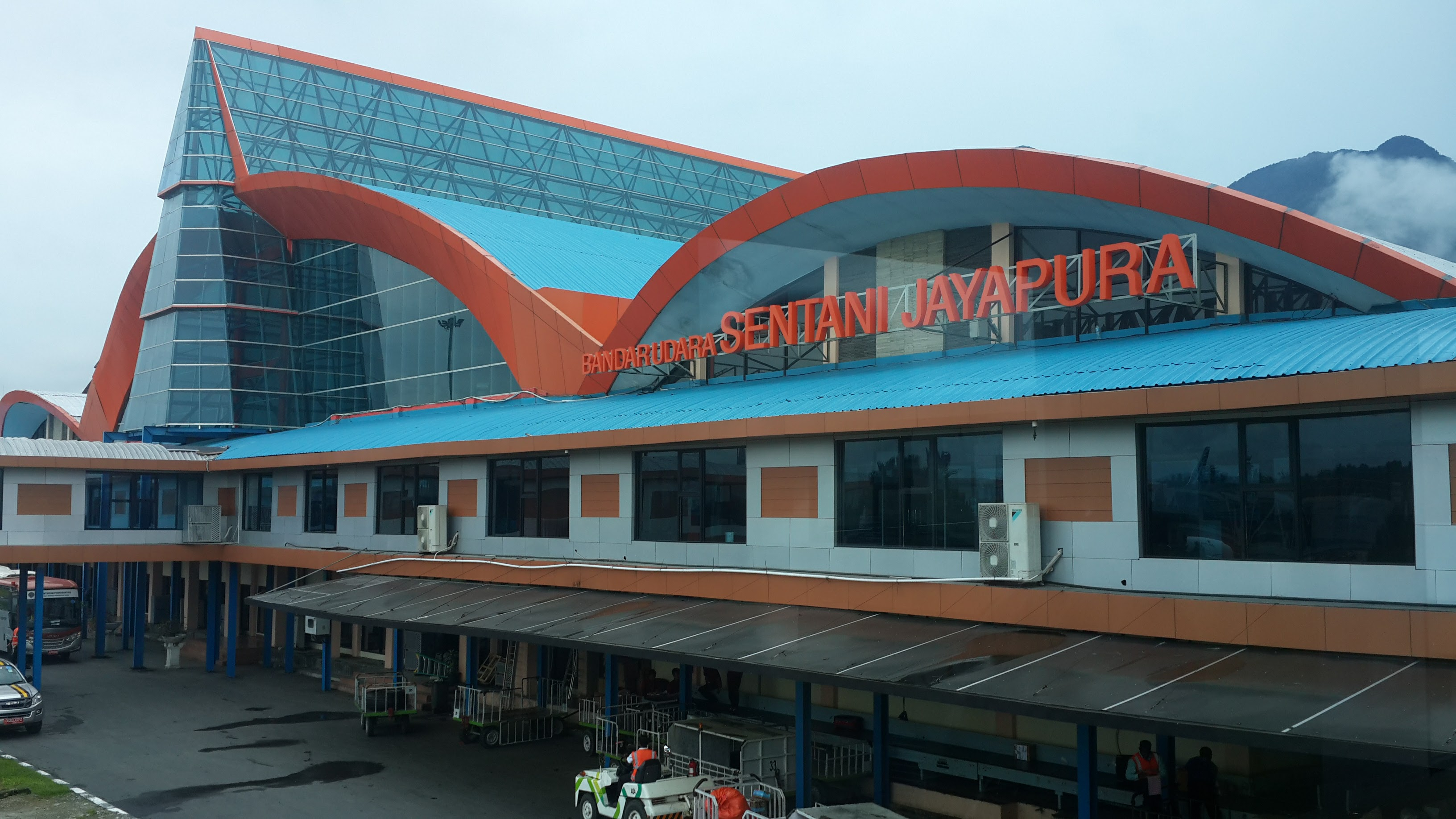 Sentani Airport, Jayapura, Papua, Indonesia